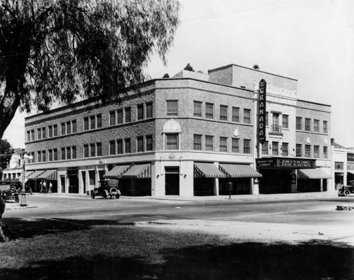 The Granada Theater (in 1925) — in Ontario, San Bernardino County, California.